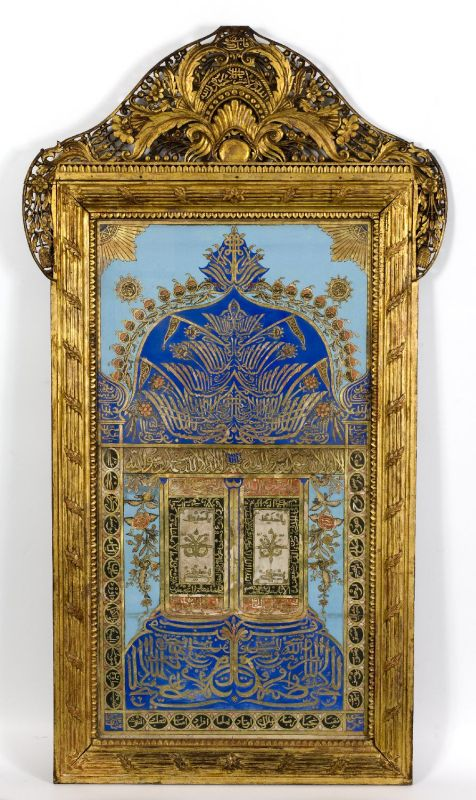 Panel from a family mosque